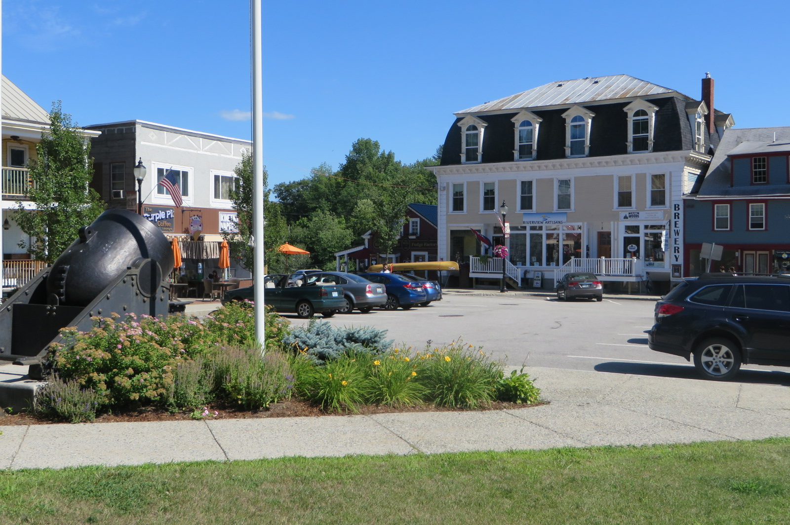 Center of Bristol.